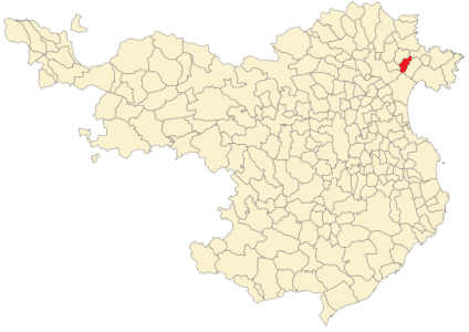 Pau